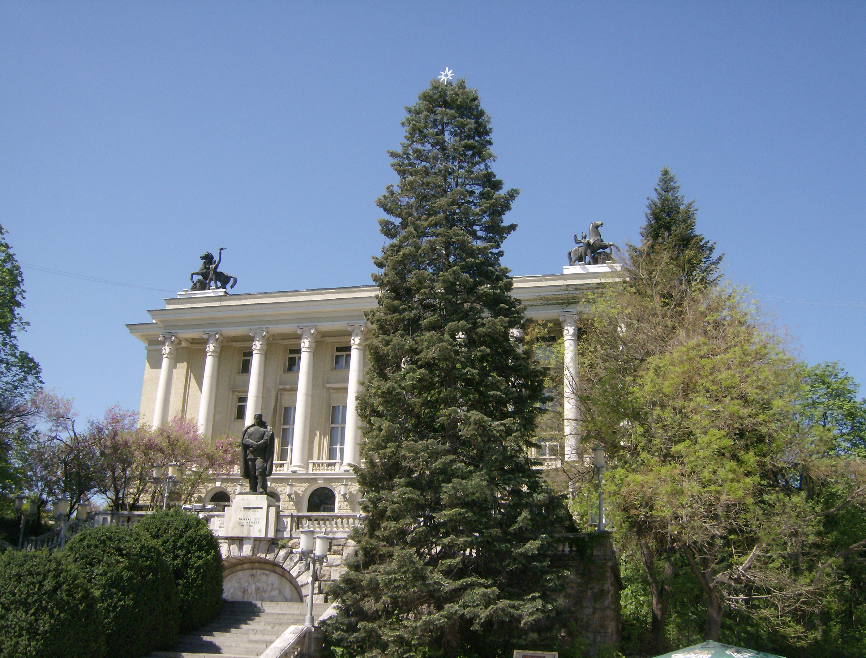 Palace Emanuil Manolov